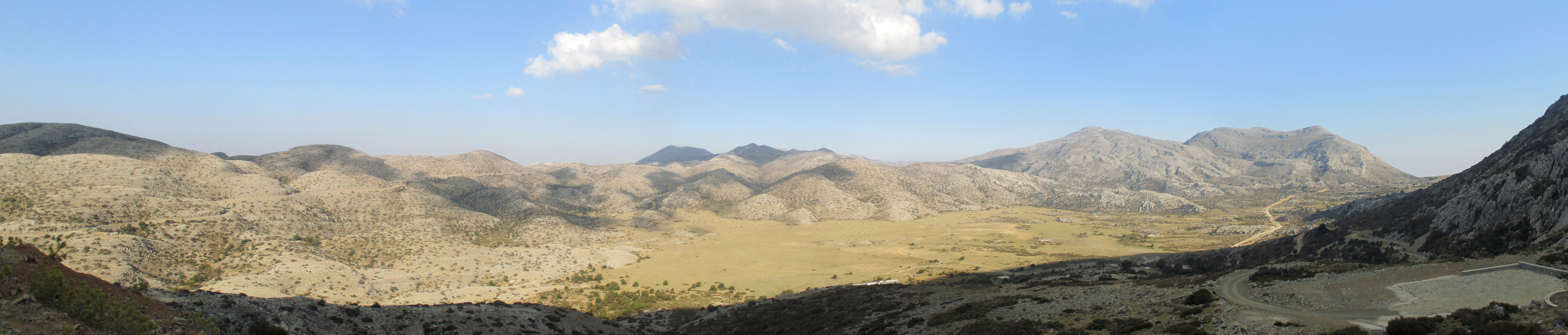 Nida Plateau, Crete. View from Idean Cave (Ideon Andron).